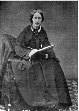 Portrait of Jemima Blackburn (née Wedderburn) (1823-1909)